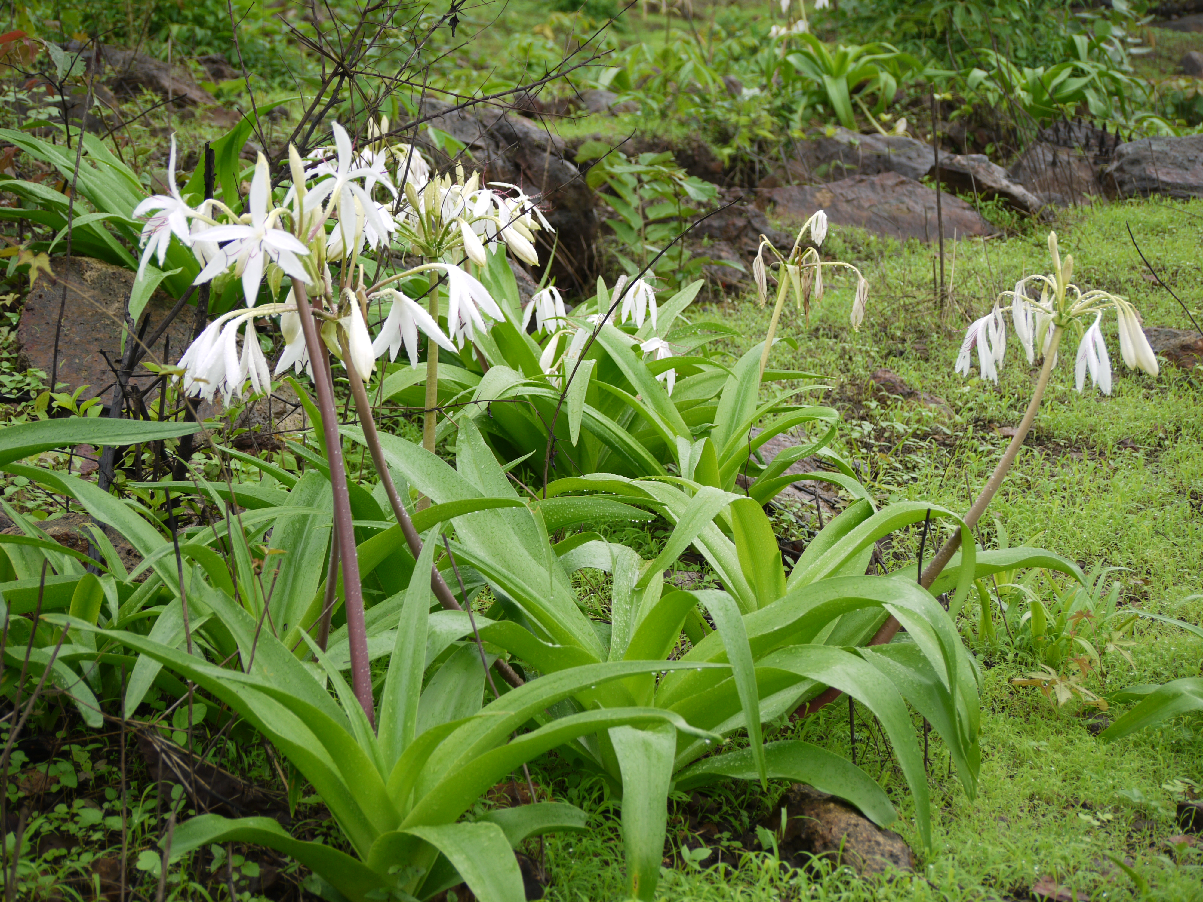 Amaryllidaceae (amaryllis family) » Crinum woodrowii KRY-num or KREE-num -- from the Greek krinon, meaning lily wood-ROW-ee-eye -- for G M Woodrow, first collected this species from Mahabaleshwar commonly known as: Woodrow's lily • Marathi: रोवी कर्णफुल rowi karnaphula Endemic to: Sahyadri (Western Ghats of Maharashtra, India) References: Flowers of India • Further Flowers of Sahyadri by Shrikant Ingalhalikar • IAS